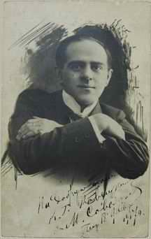 "Le Roi de Excentrique" - russian poet, composer, chansonnier Mikhail Savoiarov (postcard ~ 1913)